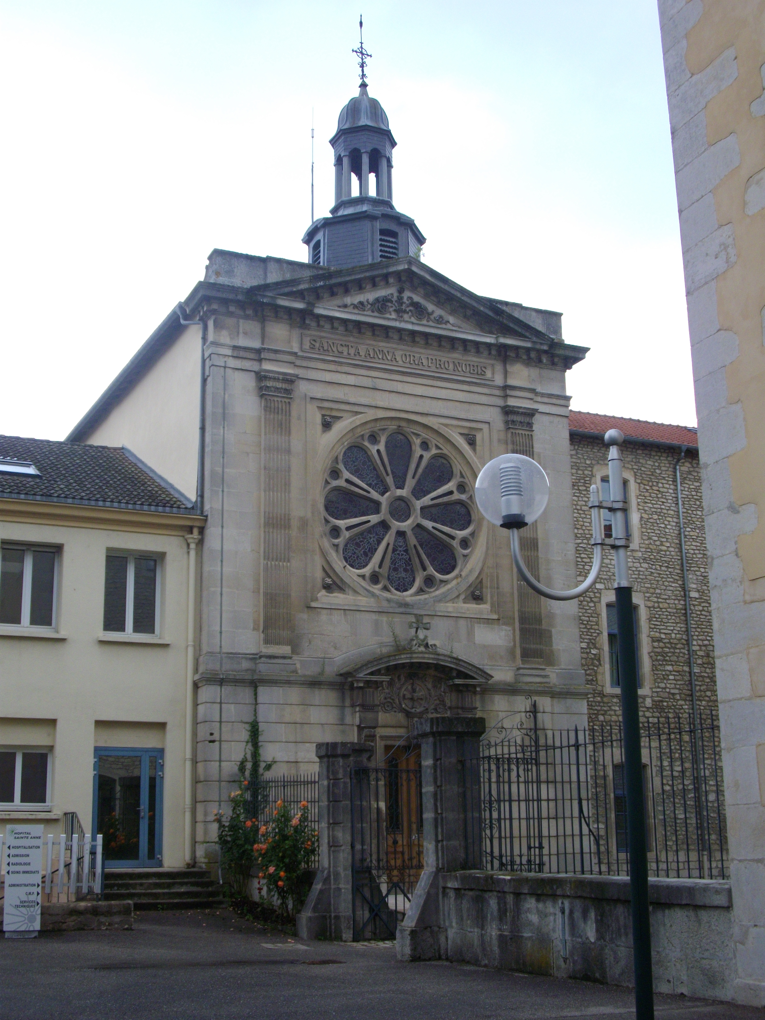 Chapel of Saint Anne hospital in Saint-Mihiel (Meuse, France)